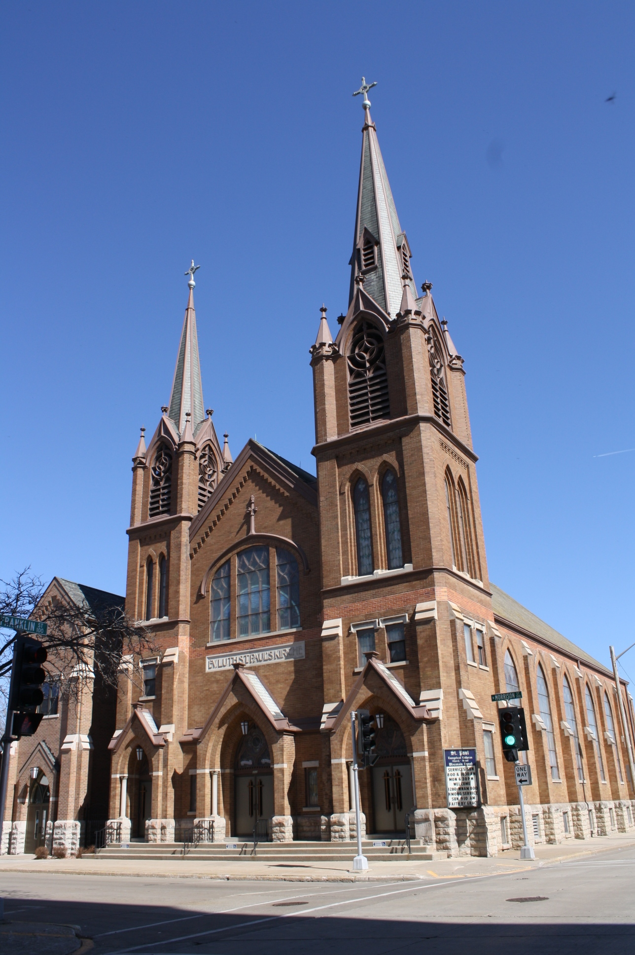 The St. Paul Evangelical Lutheran Church in Appleton, Wisconsin, listed on the National Register of Historic Places.